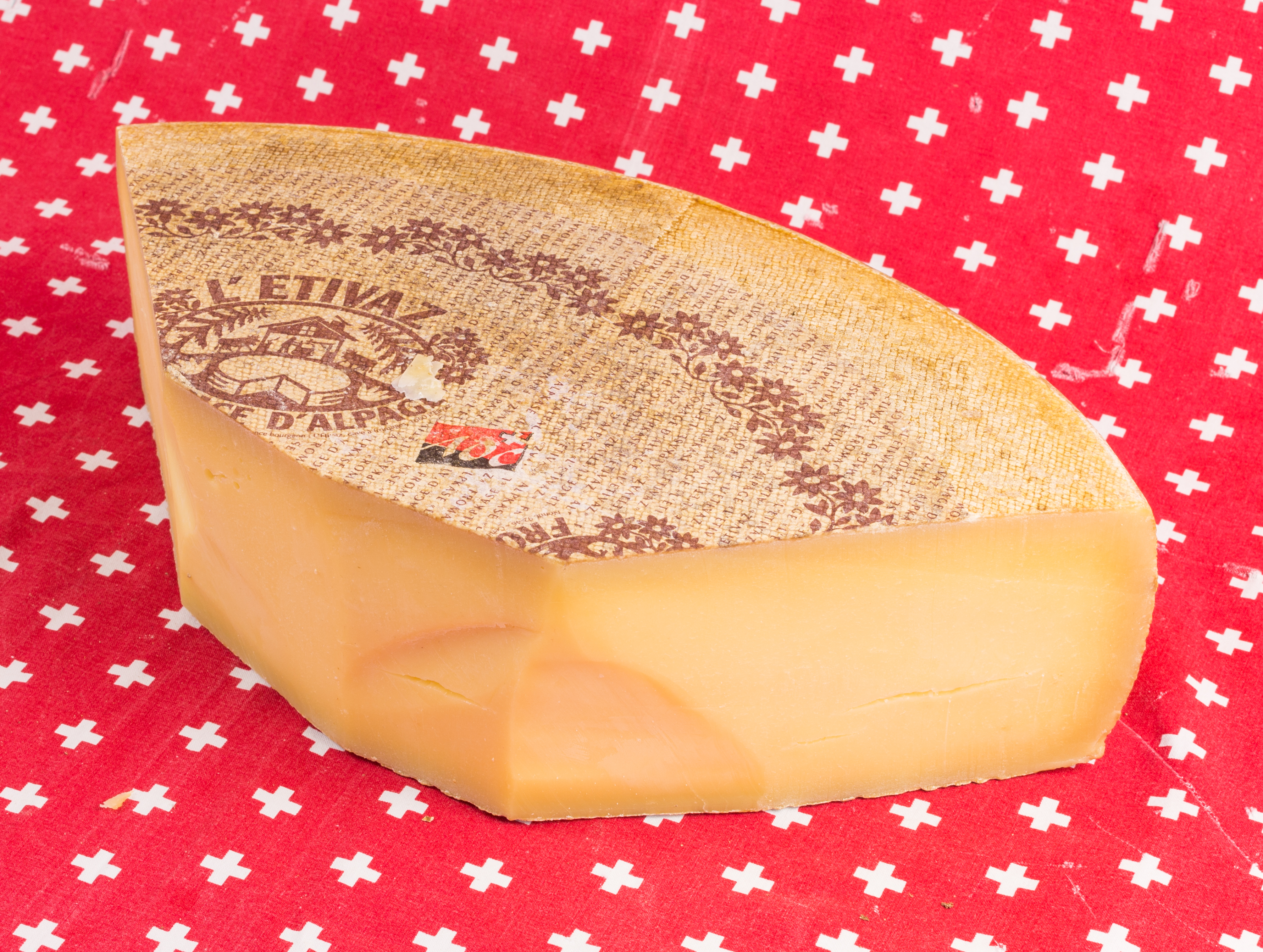 L’Etivaz AOP is a hard alpine cheese, produced from 10 May to 10 October each year. Made from the raw milk of more than 2,800 cows who graze 130 alpine pastures located between 1,000 and 2,000 metres above sea level, it is produced exclusively in mountain chalets, where a wood fire heats the milk in a giant copper cauldron.